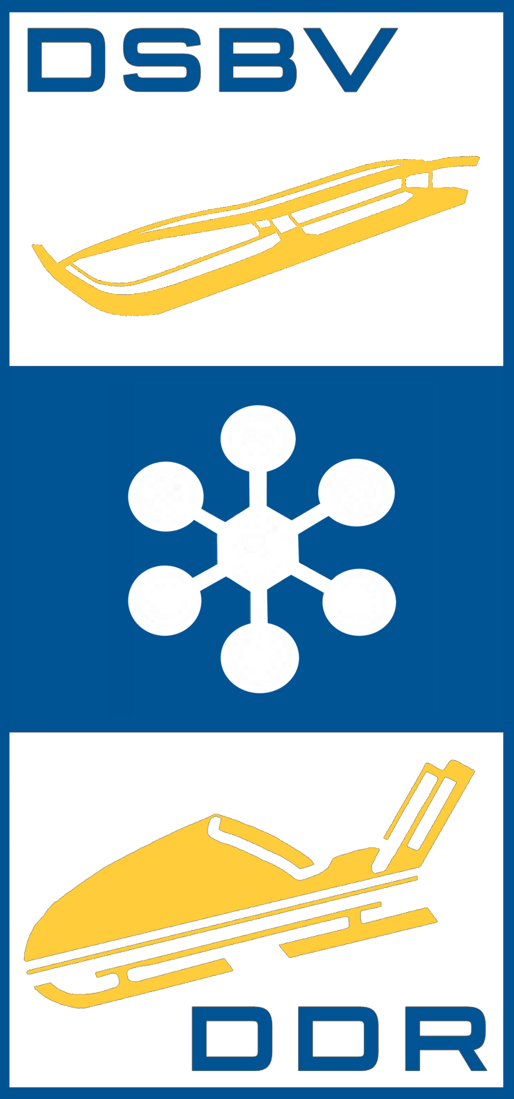 Logo of the Deutscher Schlitten- und Bobsportverband of the GDR